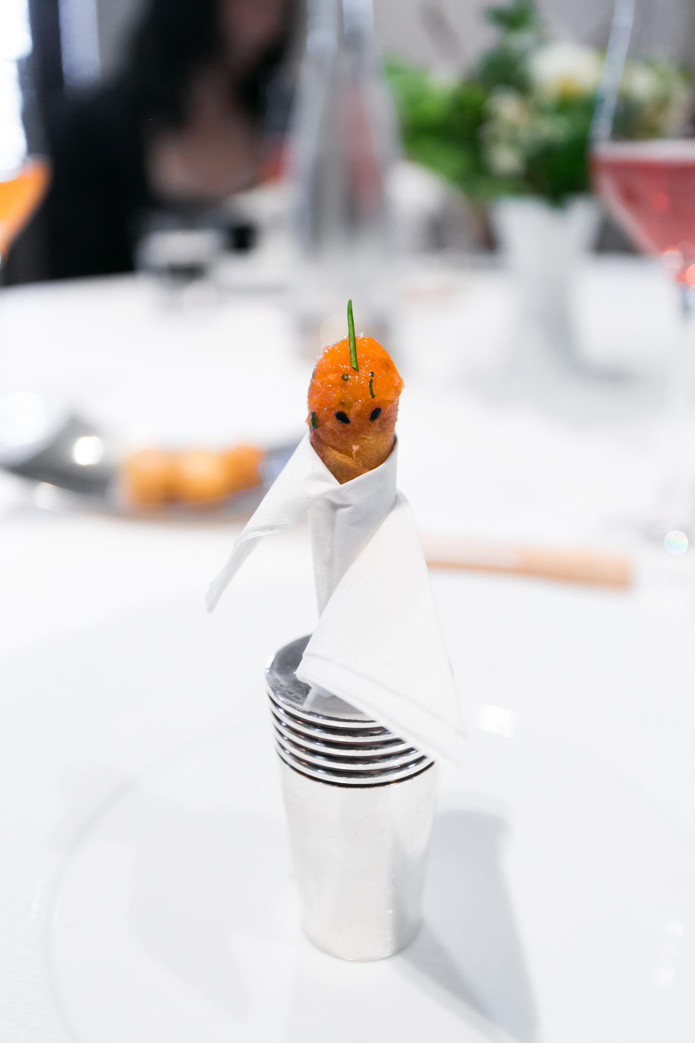 The French Laundry, Yountville, CA Date Visited: January 11, 2014